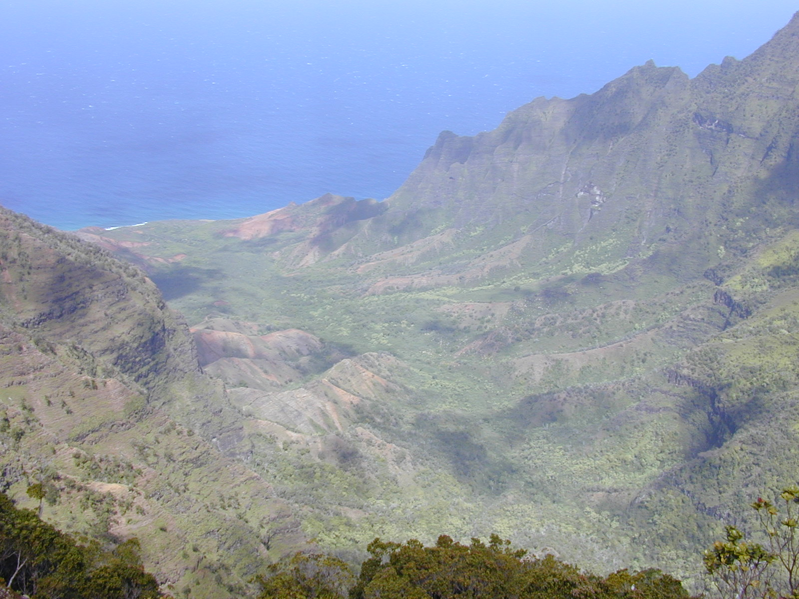 Aleurites moluccana (habit). Location: Kauai, Kalalau valley